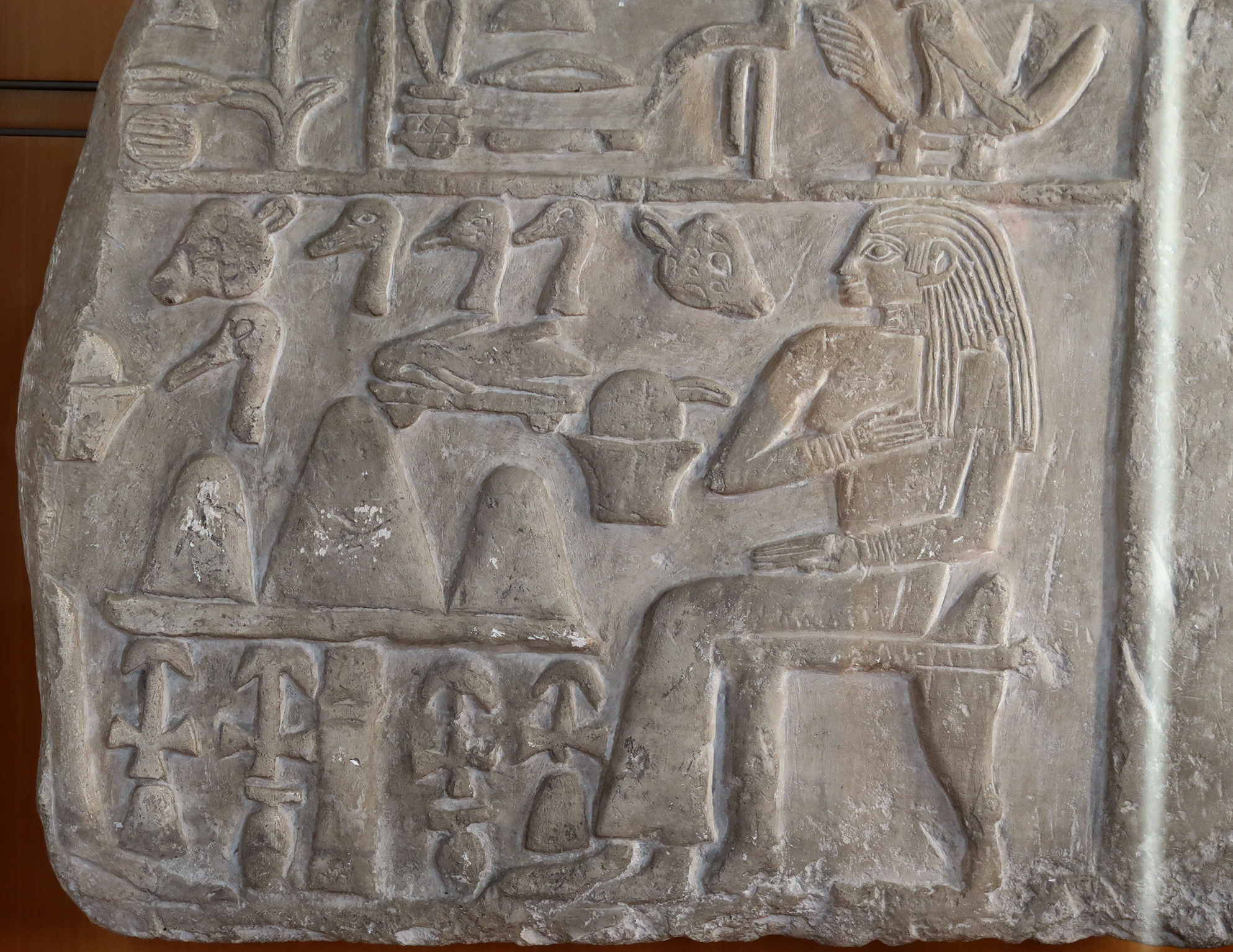 Fragment of a stele in the name of Nes-Henou. Thinite period, 2nd dynasty (2925-2700 BCE). Limestone, H. 34.4; L. 43.8; P. 6.3 cm. LMusée des Beaux-Arts de Lyon. Entrance to the museum in 1969, inv. 1969-157